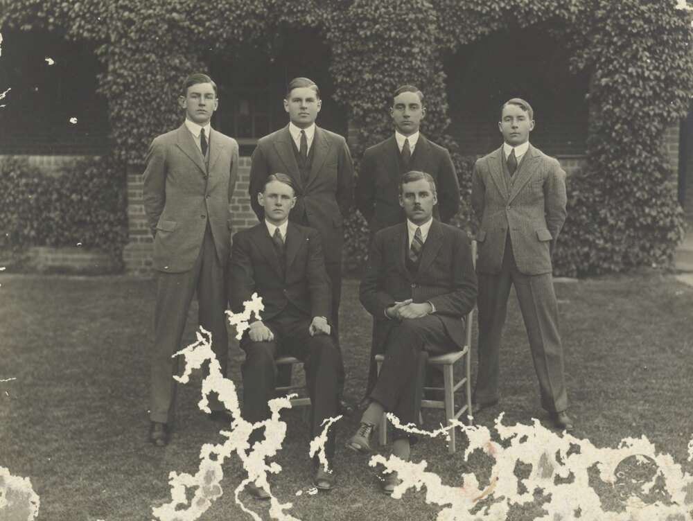 John Gorton as a student at Geelong Grammar School in 1930; he is seated to the left